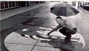 This photo of Bob Guillemin (a.k.a., Sidewalk Sam), born in 1939, was taken on the streets of Boston, sometime in the late 1970s or early 1980s. The photo shows the artist holding an umbrella to stave off a light rains as he completes his work.